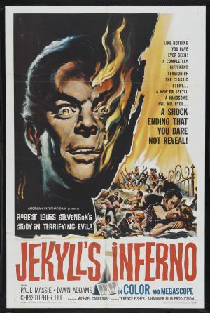 Poster for the film The Two Faces of Dr. Jekyll (1960). Jekyll's Inferno was the North American distribution title for the Hammer film.